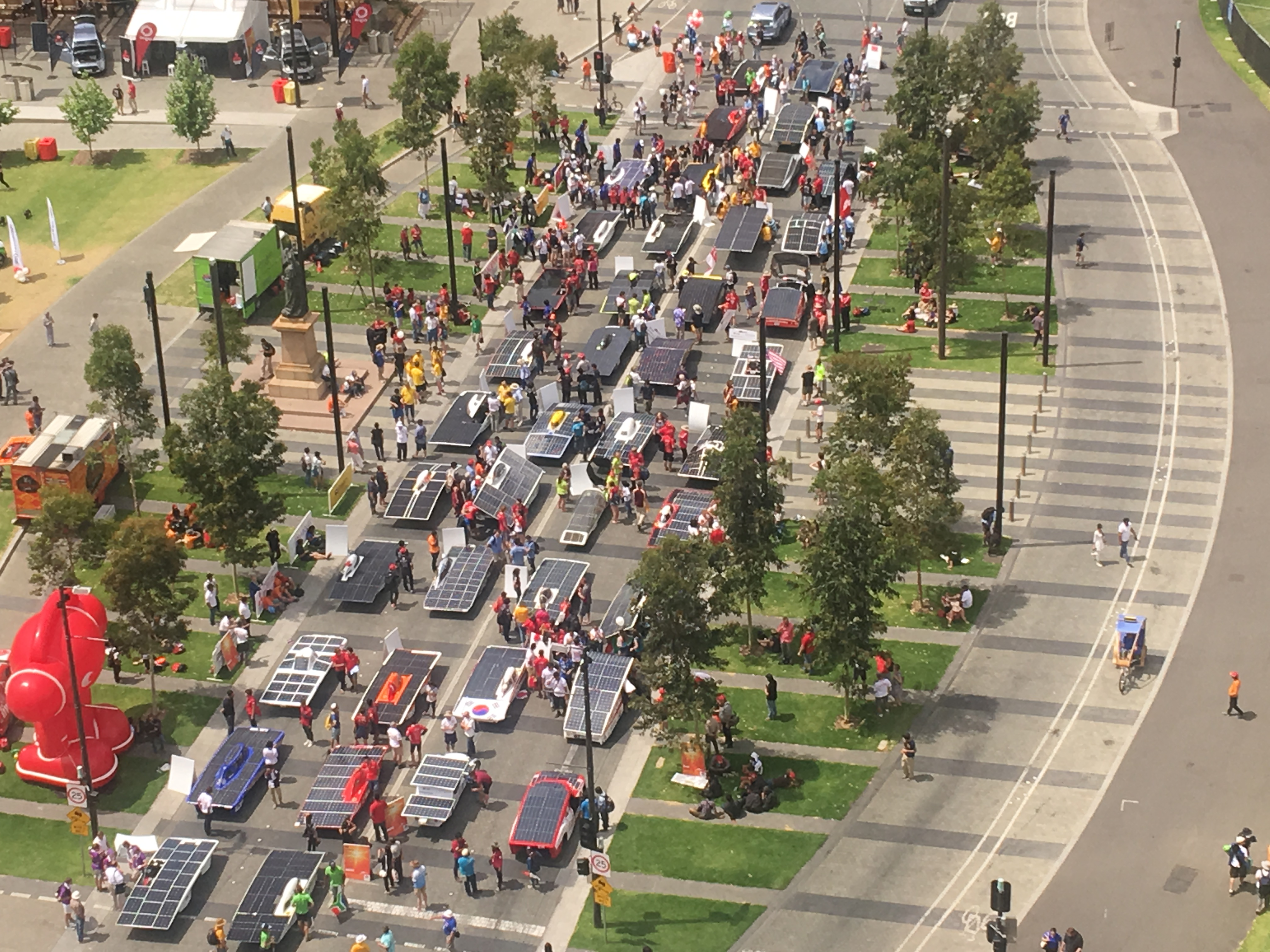 Solar race vehicles at the end of World Solar Challenge 2015. Author: Susan Sun Nunamaker/Sunisthefuture. Specific page where this photo is found